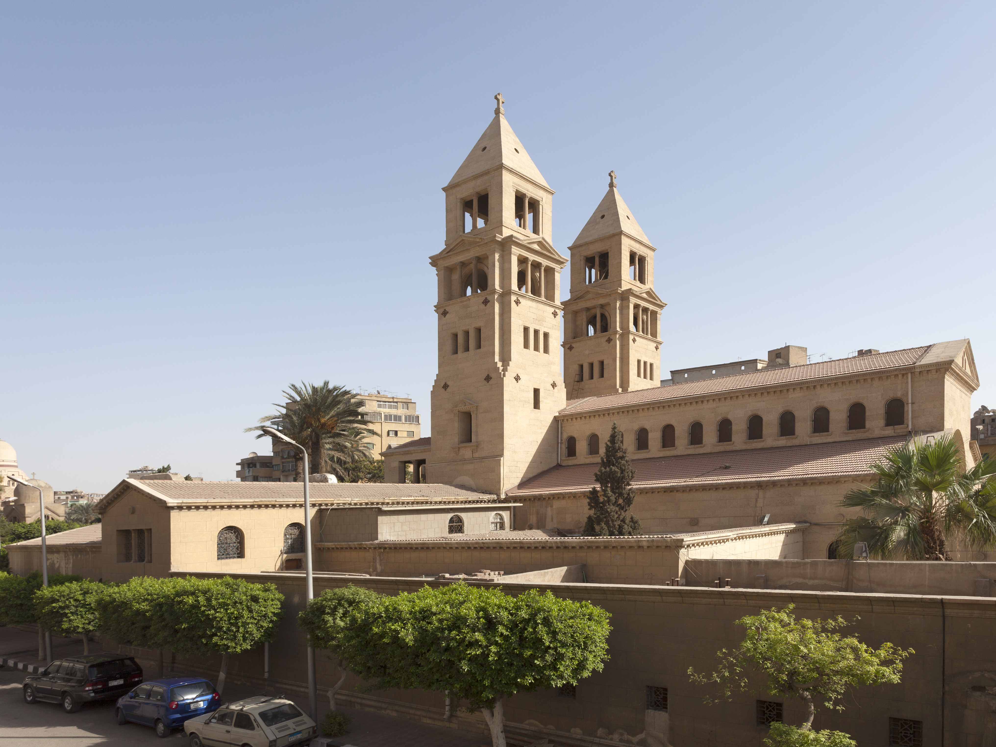 Church of SS Peter and Paul (Boutrosiya), el-'Abbasiya, Cairo, Egypt